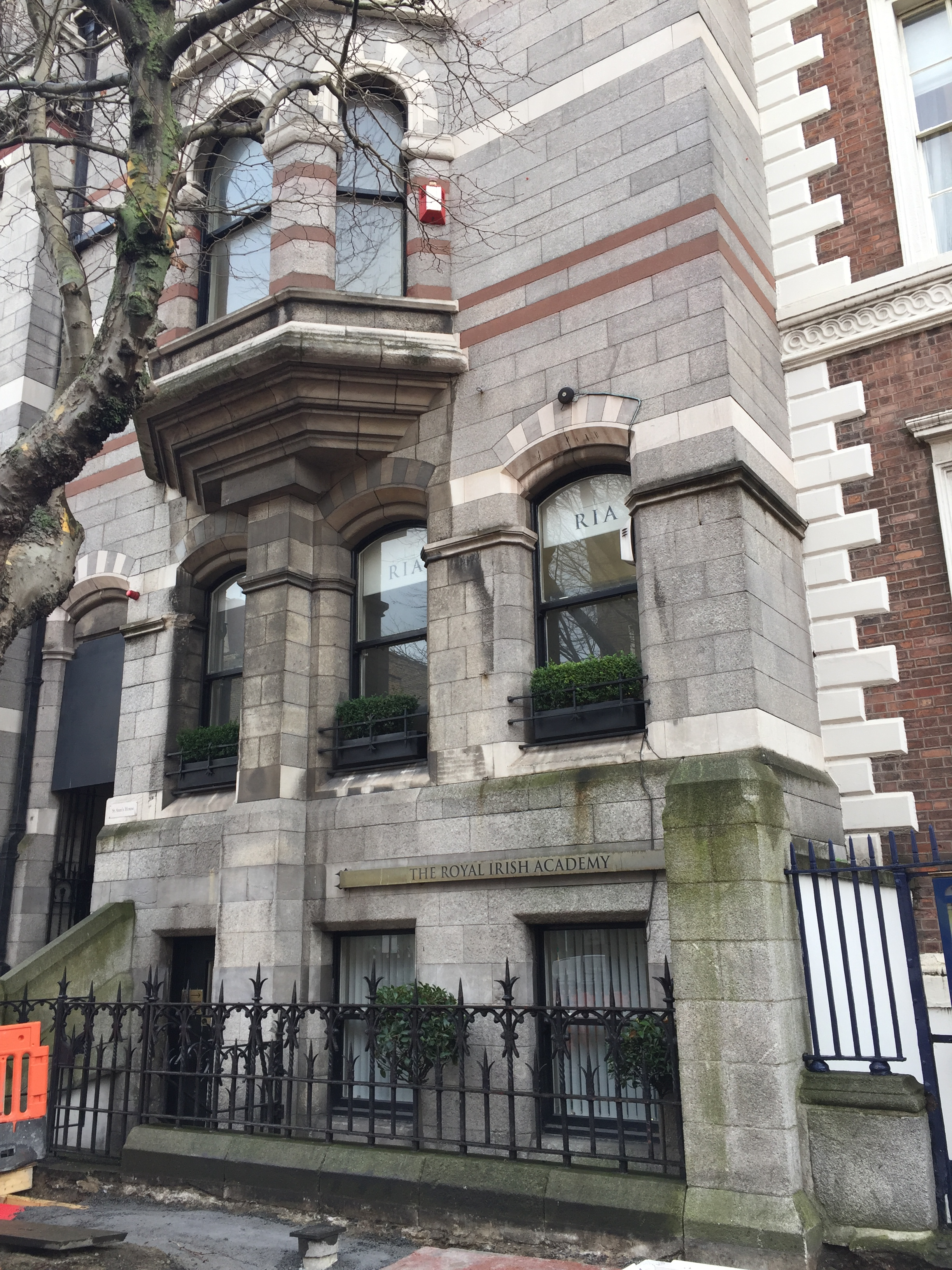 Outside of the Royal Irish Academy on Dawson Street